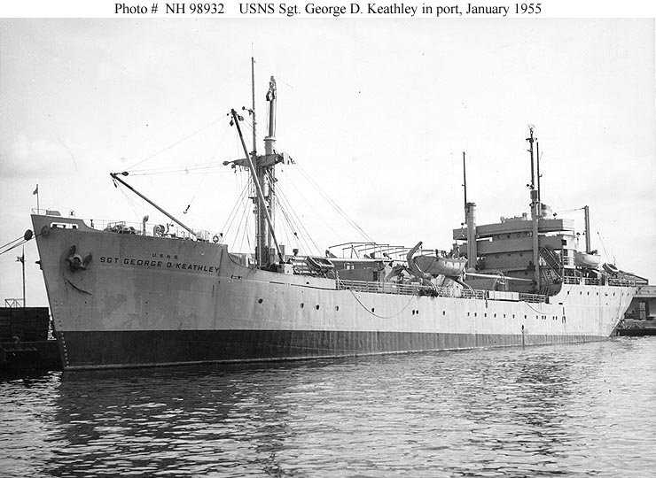 Sgt. George D. Keathley (T-APC-117) in port, probably in Yokohama, Japan, January 1955. Photo taken by a Commander Naval Forces Far East Photographer. US Navy photo # NH 98932 from the Military Sealift Command collection at the Naval Historical Center.